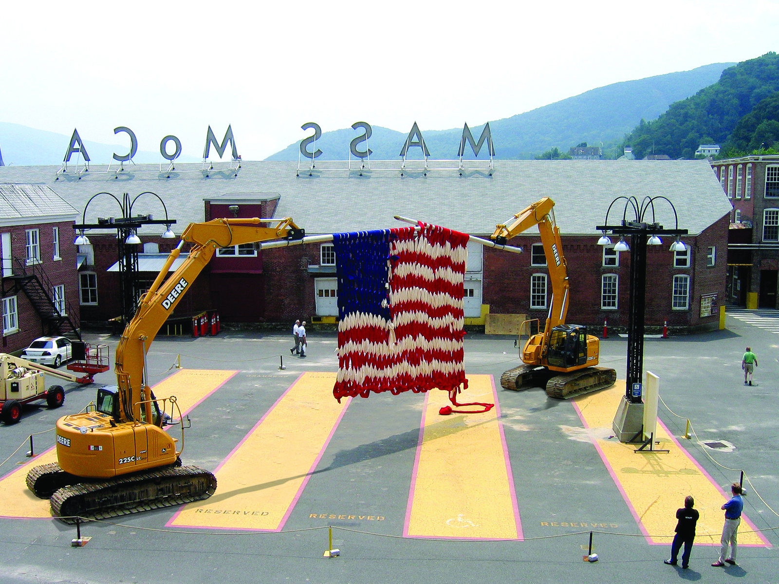 Dave Cole's "The Knitting Machine" presented at MASS MoCA on the 4th of July weekend, 2005. Courtesy of Dave Cole, photo by Arjen Noordeman, photo courtesy of Mass MoCA.